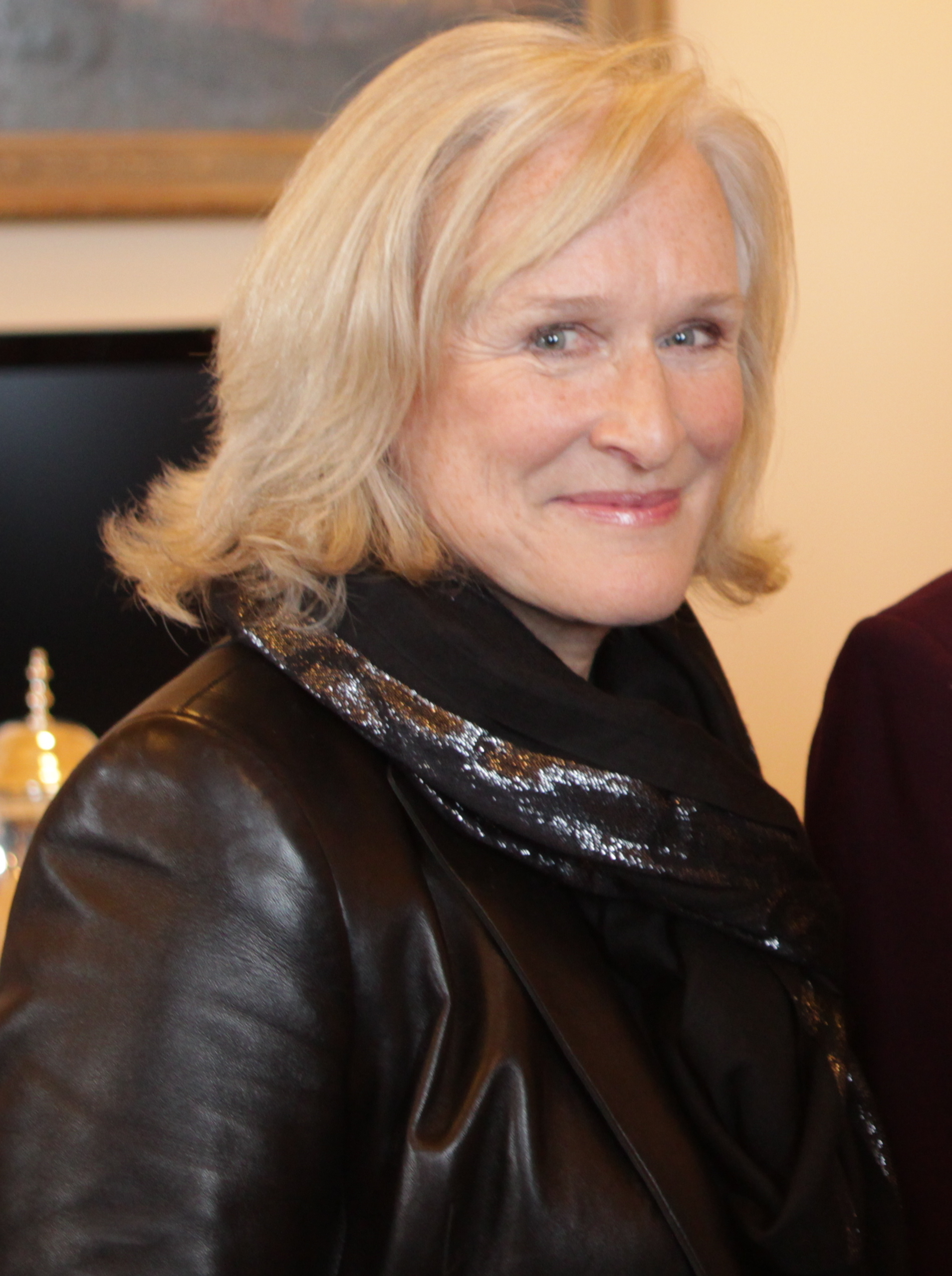 Photo provided by the office of U.S. Senator Debbie Stabenow.